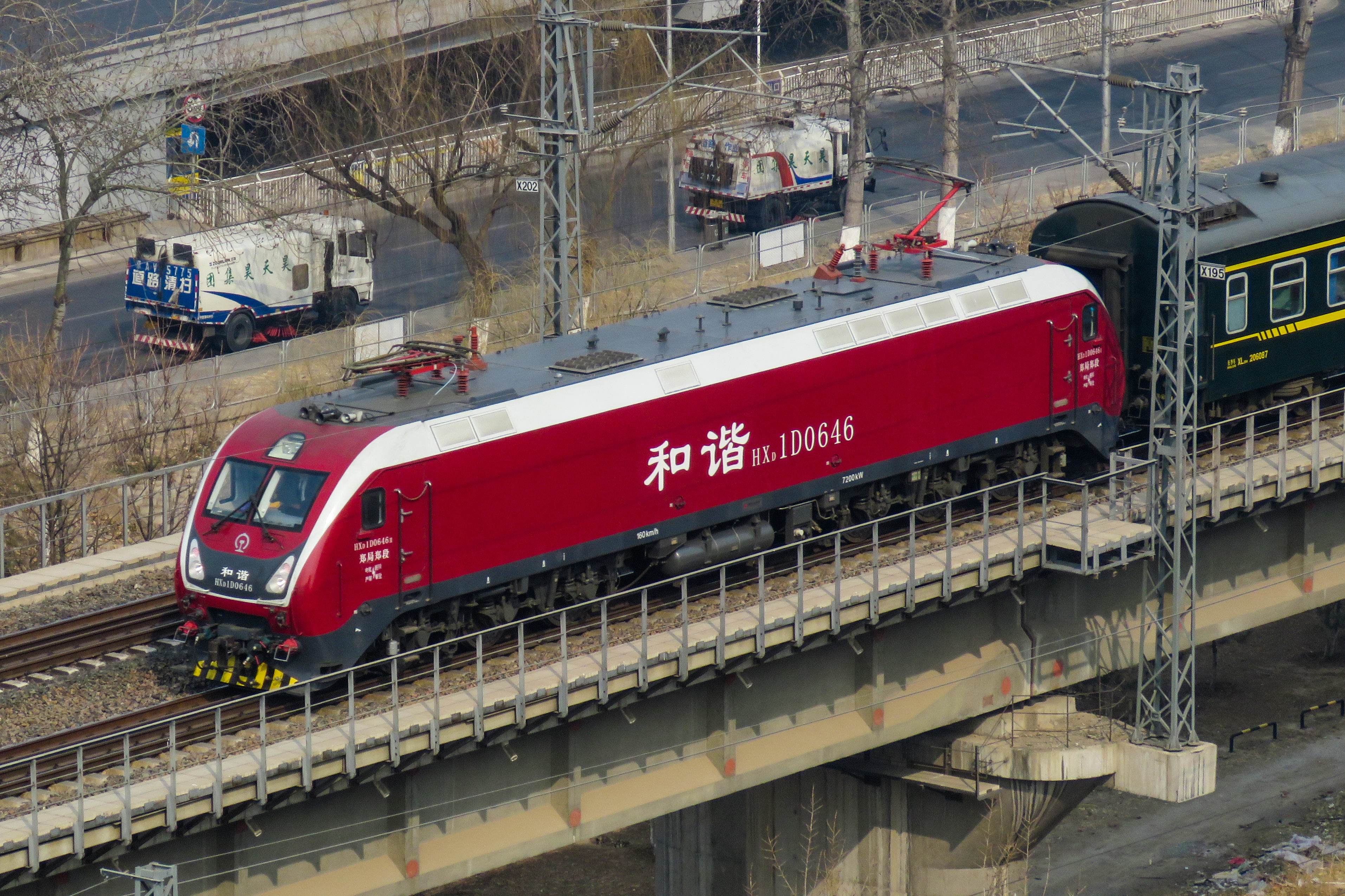 T167 to Nanchang.